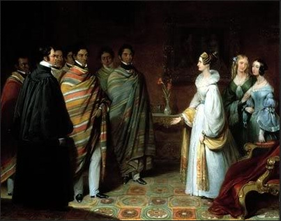 Painting by Henry Room (1802-1850) of the 1836-37 Embassy of Madagascar to Great Britain, being received by Queen Adelaide